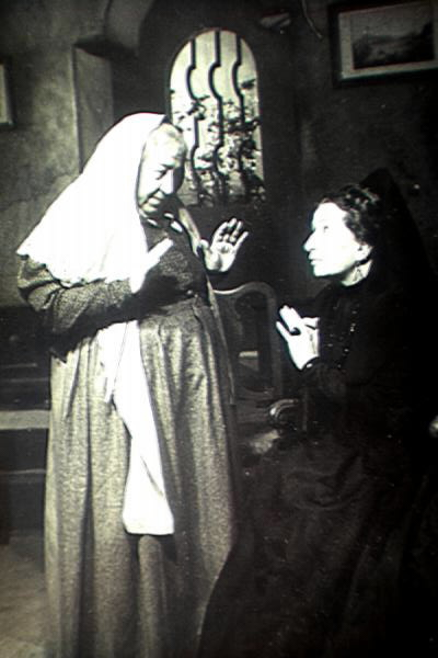 Italian Actresses Bella Starace Sainati and Wanda Capodaglio in the Play La casa de Bernarda Alba""